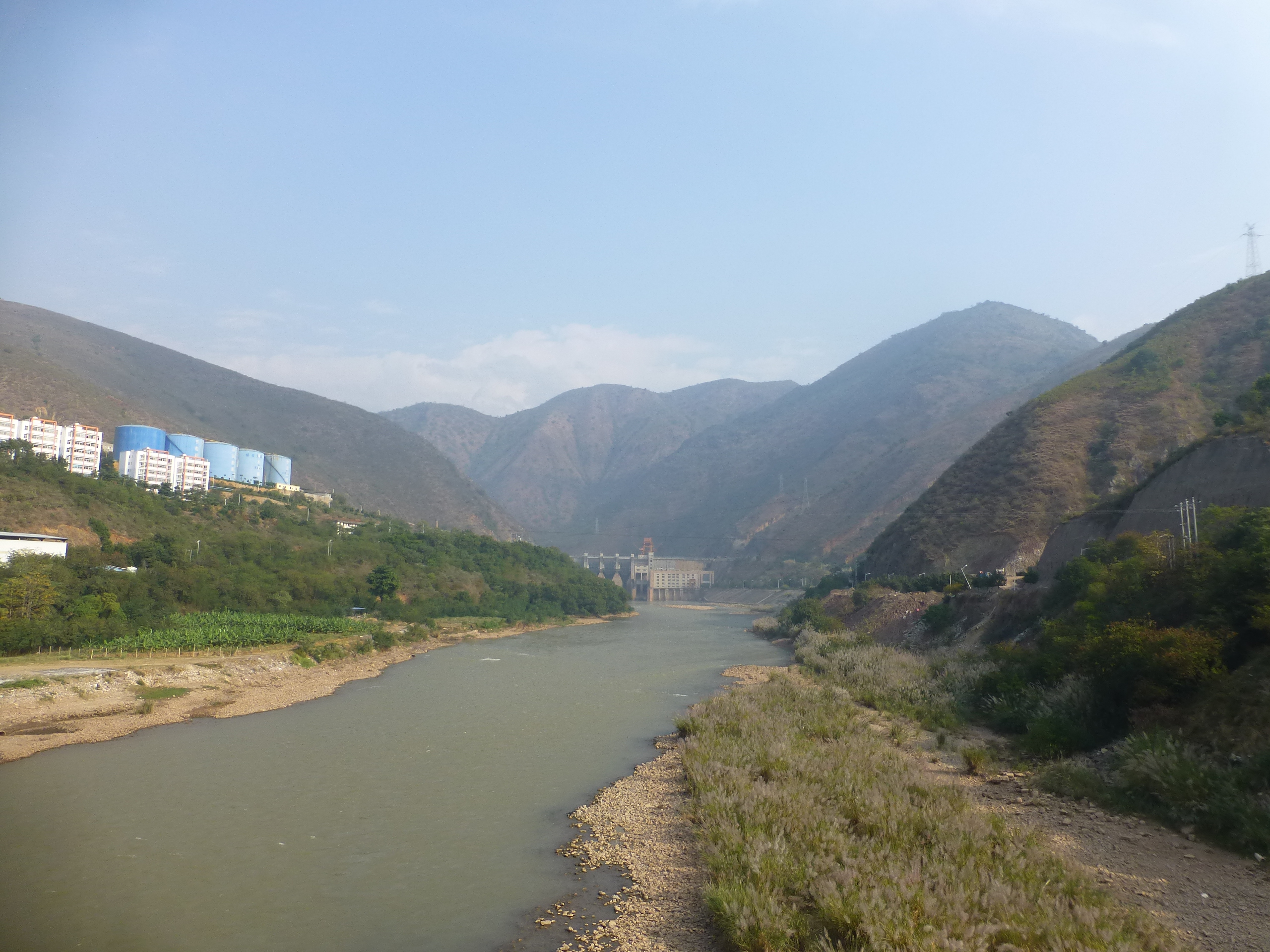 The Nansha Dam and hydroelectric plant on the Red River, seen from the bridge over the Red River near Nansha Town, Yuanyang County, Yunnan.